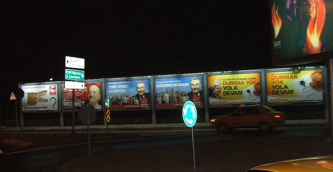 Election Posters of Turkish Parliametary Elections 2007 in Etiler, Istanbul